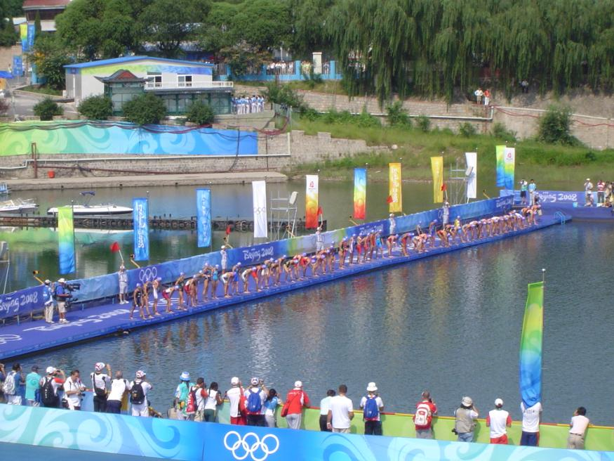 The swimming start of the women's triathlon at the 2008 Summer Olympics.